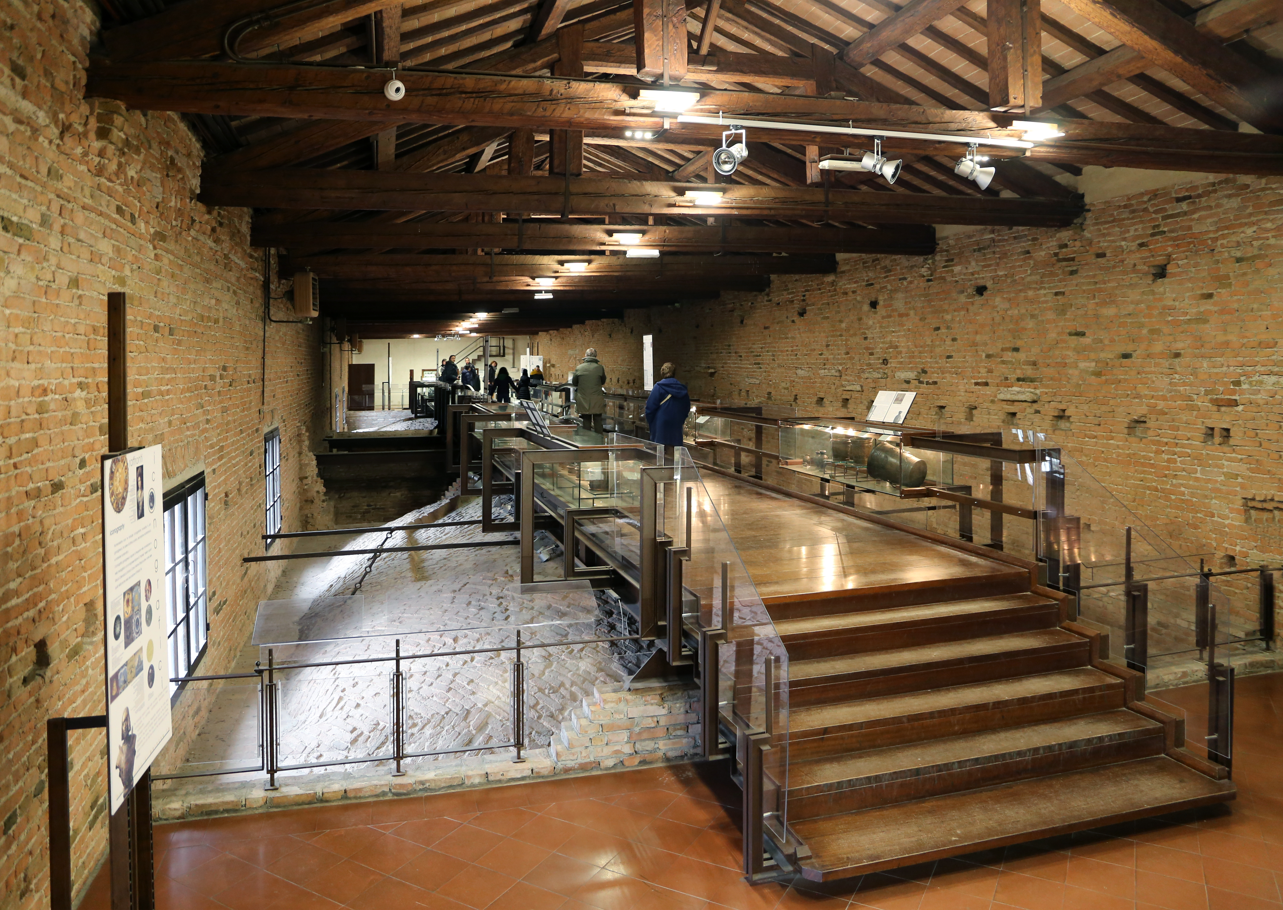 Interior of Palazzo Te (Mantua)